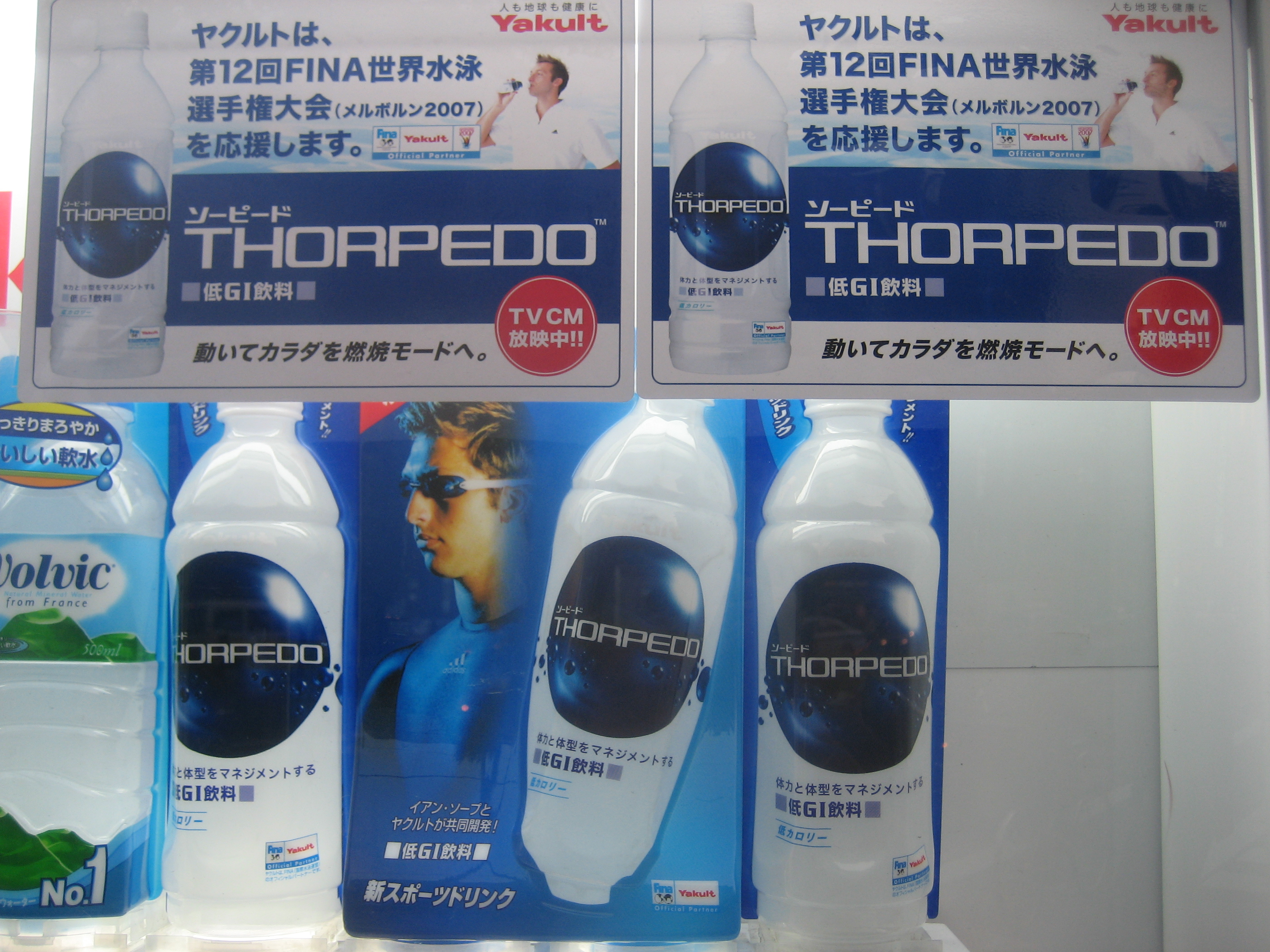 Ian Thorpe Thorpedo - The Drink ! - You never know when Australia-related things will pop up in Japan. Seen in a Shimbashi vending machine. This drink was around a lot last year, now it can be seen occasionally in vending machines.